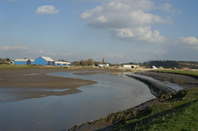 Dunball Wharf. Taken from Starland Outfall on the River Parrett.